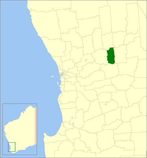 Description=Location of the Local Government Area in Western Australia